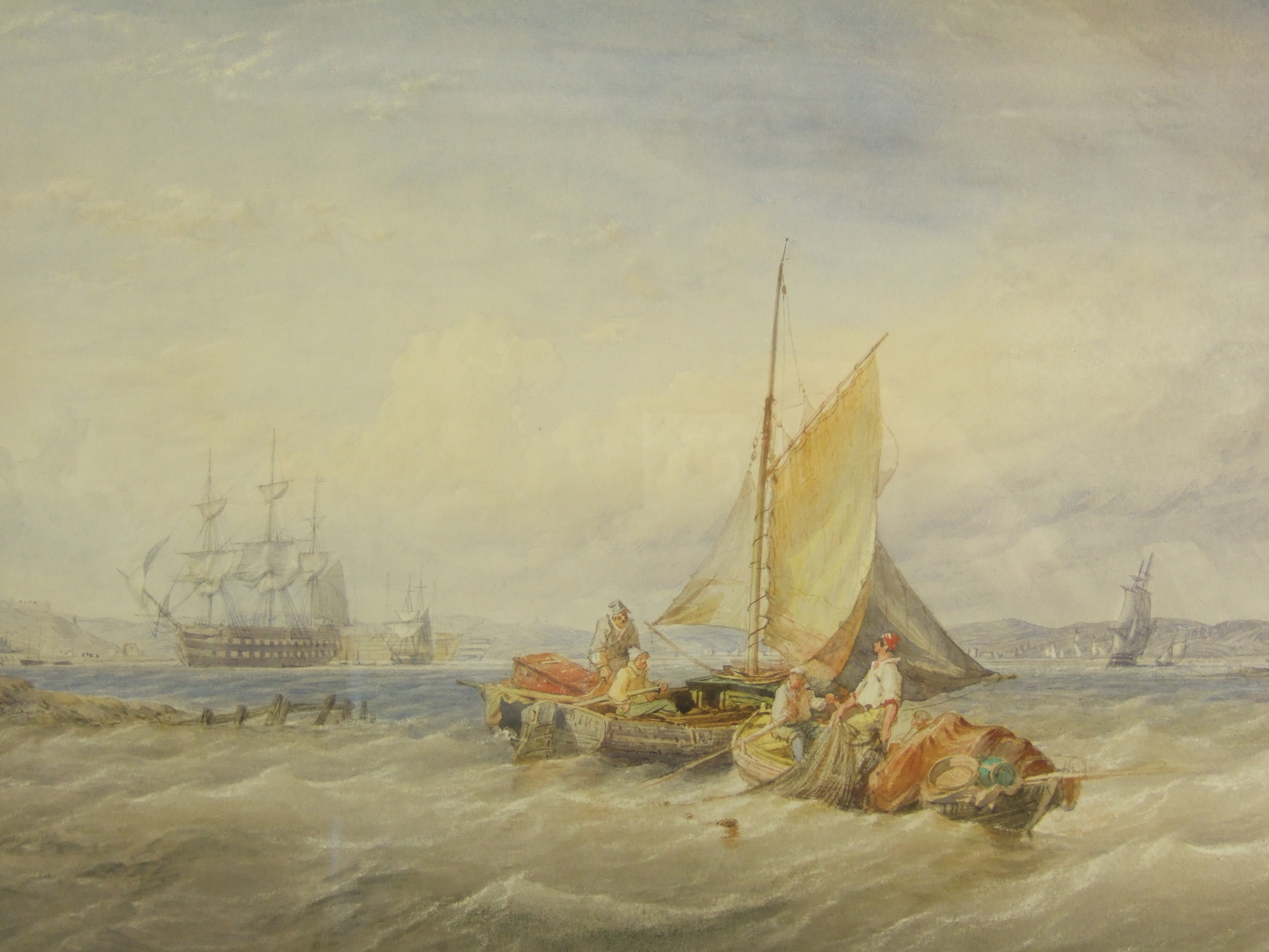 Watercolour drawing by Thomas Sewell Robins. Dated 1861 and initialled. Shows coastal fishing scene with Naval vessels in the background.